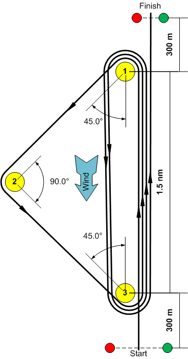 Star and Soling Course Map of the 1984 Olympic Games